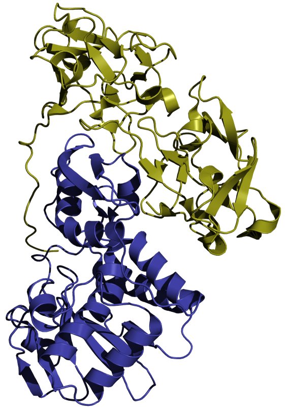 structure of Abrin-a, taken form the pdb-file 1abr. The A-chain is in blue, the B-chain in olive.